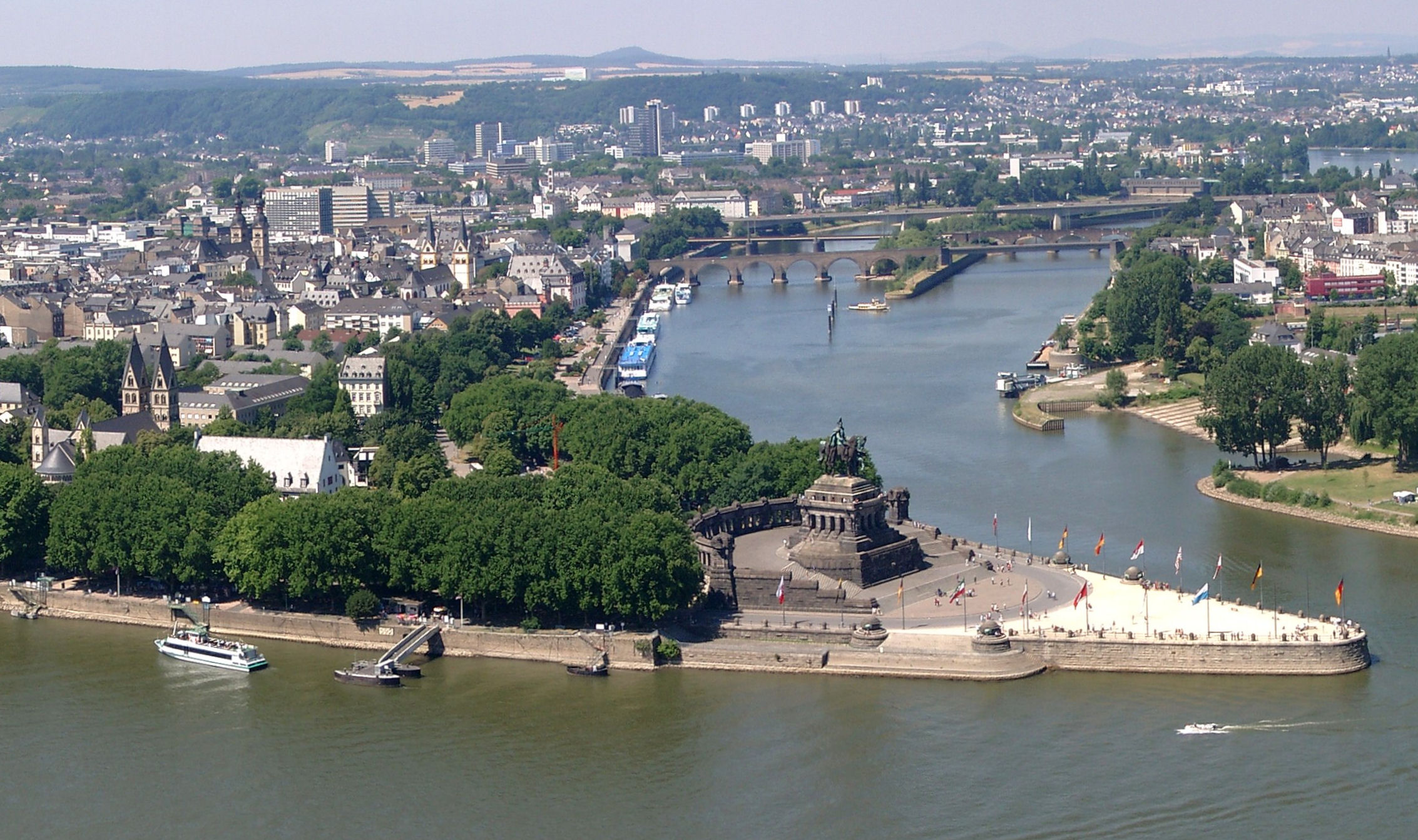 Deutsches Eck in Koblenz